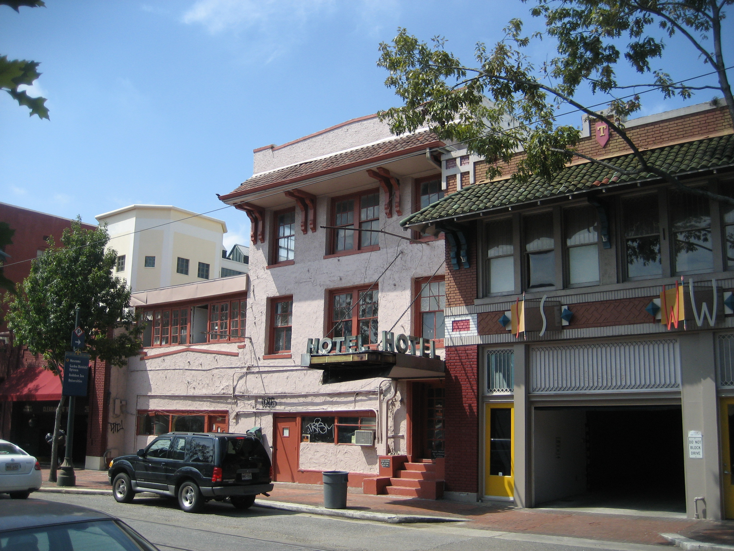 New Orleans Central Business District. Closed hotel on St. Charles Avenue. This was formerly the "LeDale Hotel", where Ylenia Carrisi was residing at the time of her disappearance in January 1994.